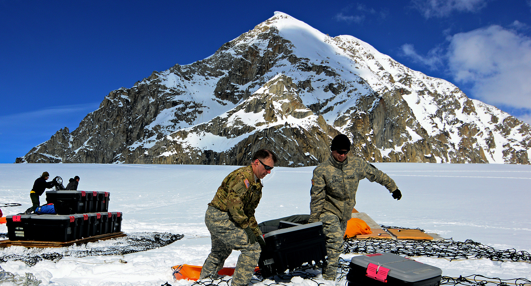 Mount Frances from Denali Basecamp. (Army photo/John Pennell)